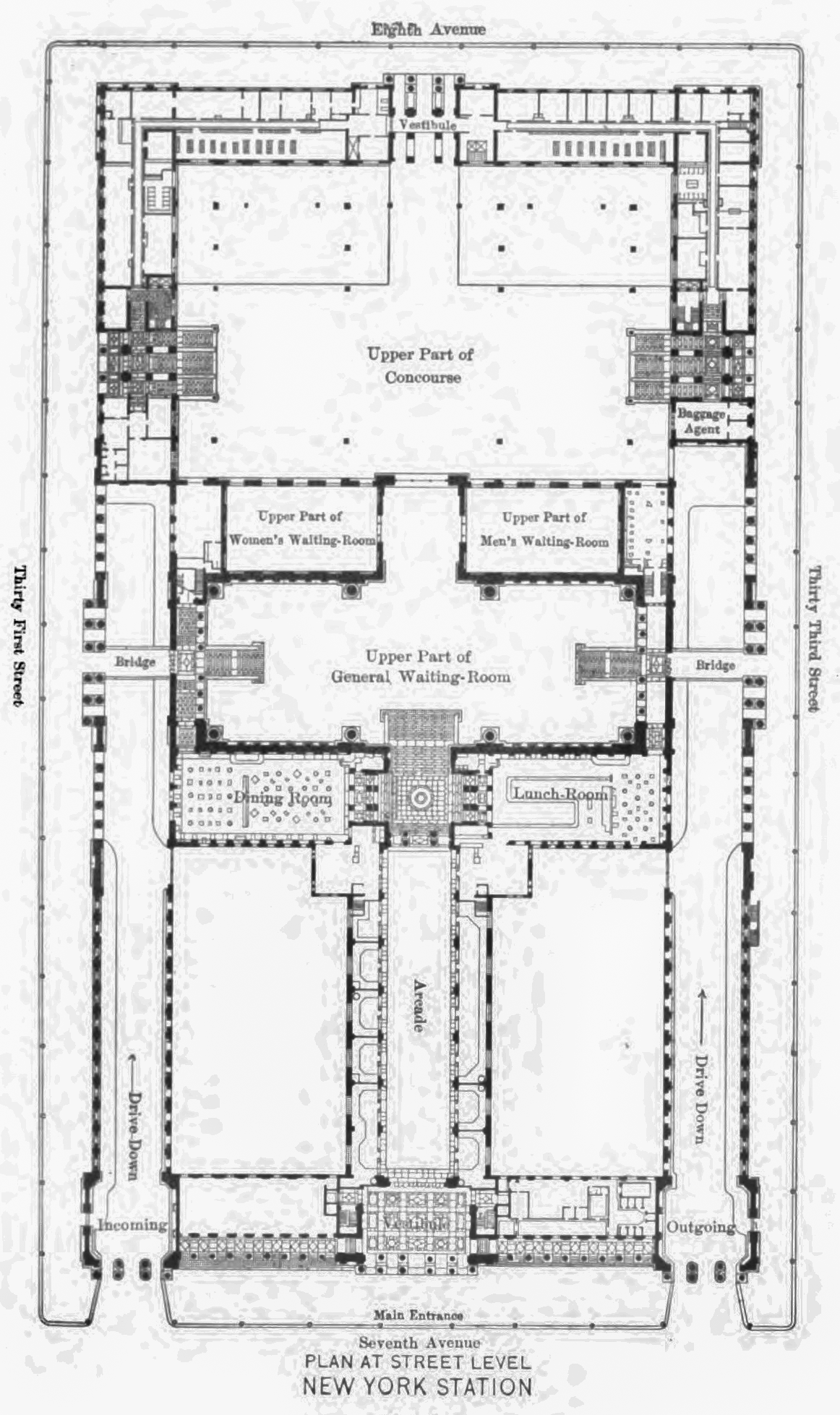 Street level floor plan, Pennsylvania Station (New York), opened 1910, nearly all of the structure was demolished in 1963.